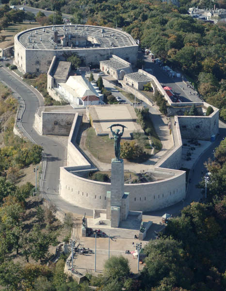 Citadella, Hungary, aerial photography